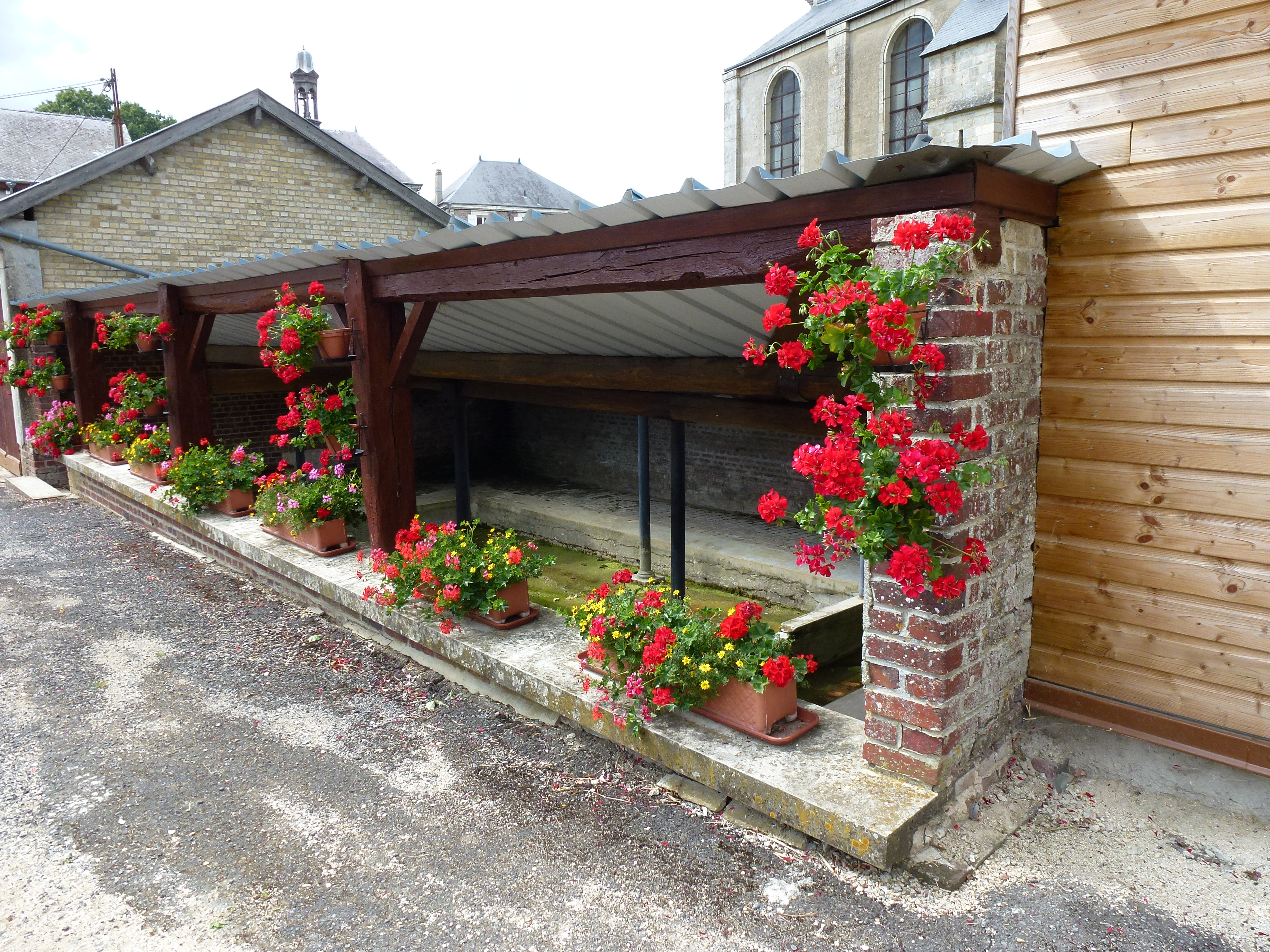 Viel-Saint-Rémy (Ardennes) lavoir